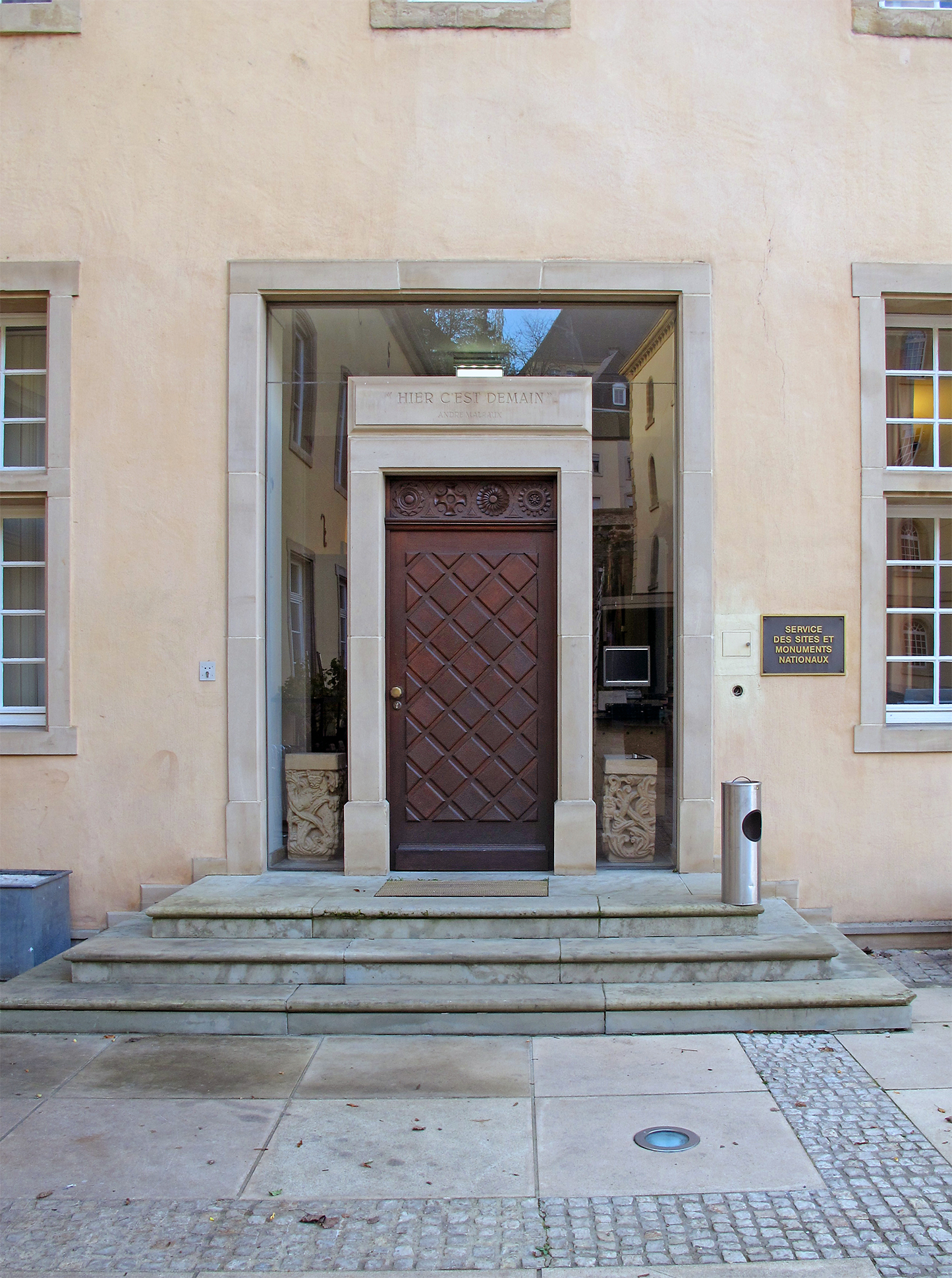 The entrance to the offices of the Service des sites et monuments nationaux (SSMN) in a building of the Neumünster abbey in Luxembourg-Grund